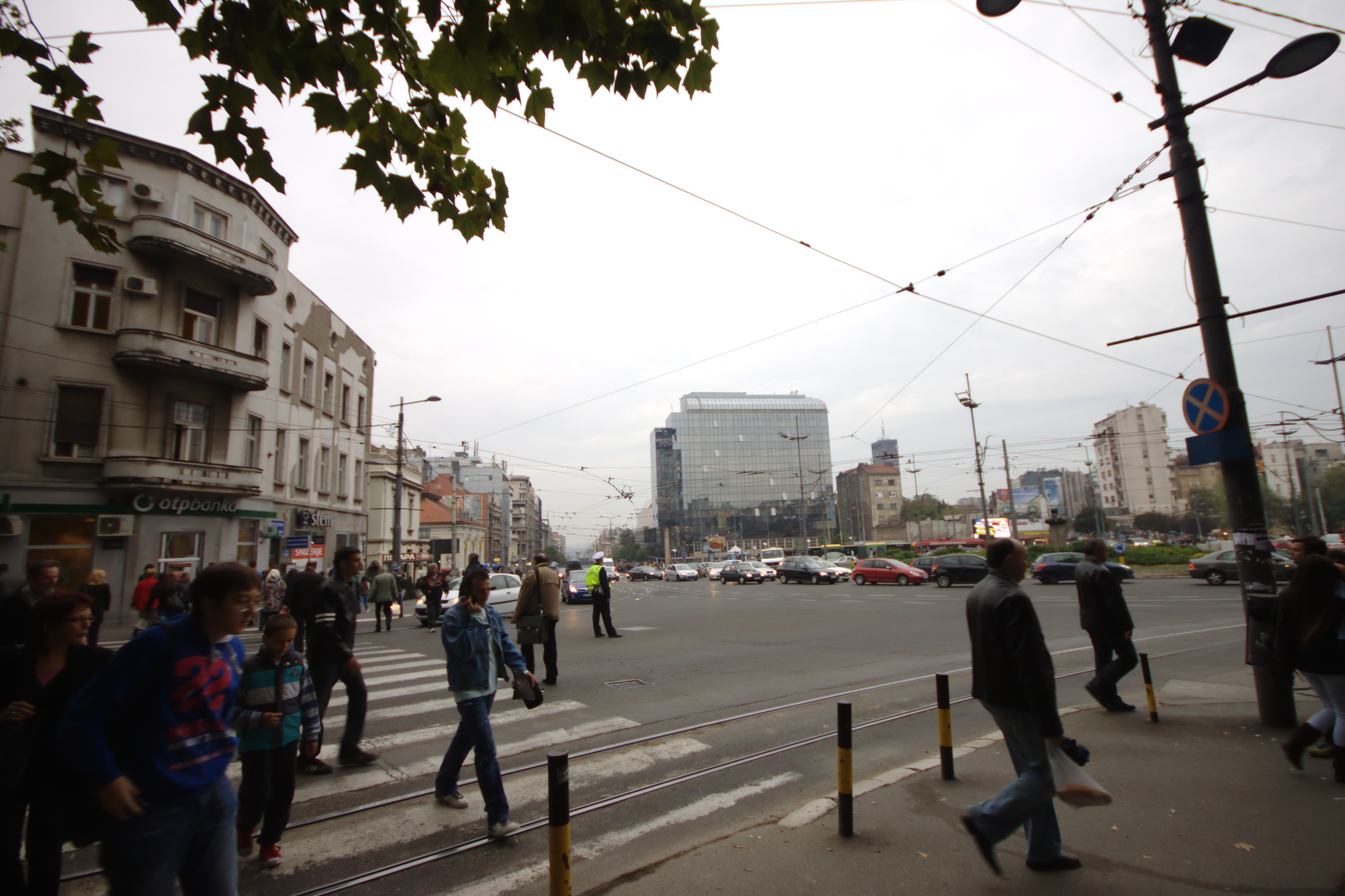 Central part of Belgrade, Serbia